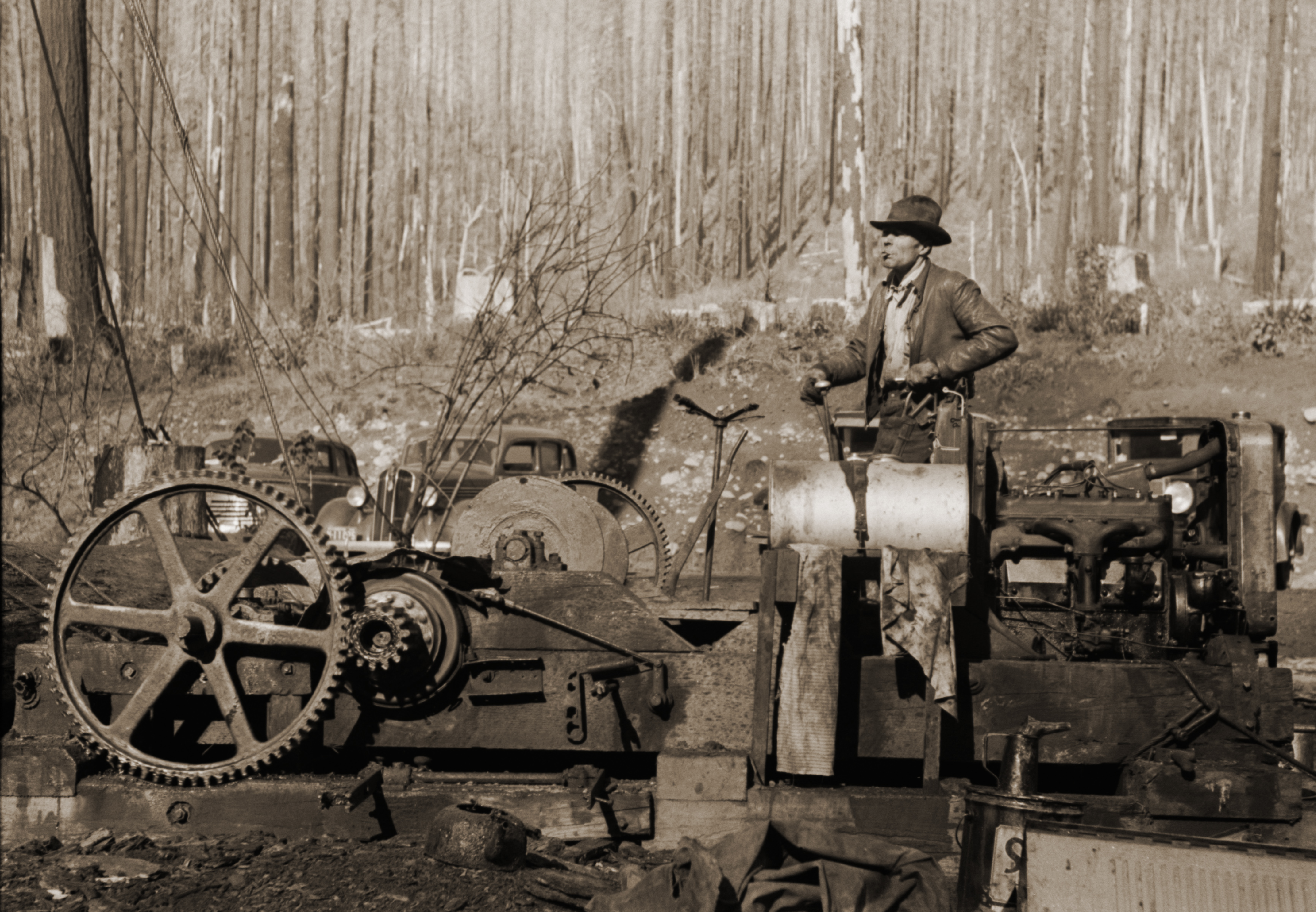 A so-called "Donkey Puncher," a logger operating a mechanical engine used for moving felled trees, Tillamook County, Oregon, October 1941.